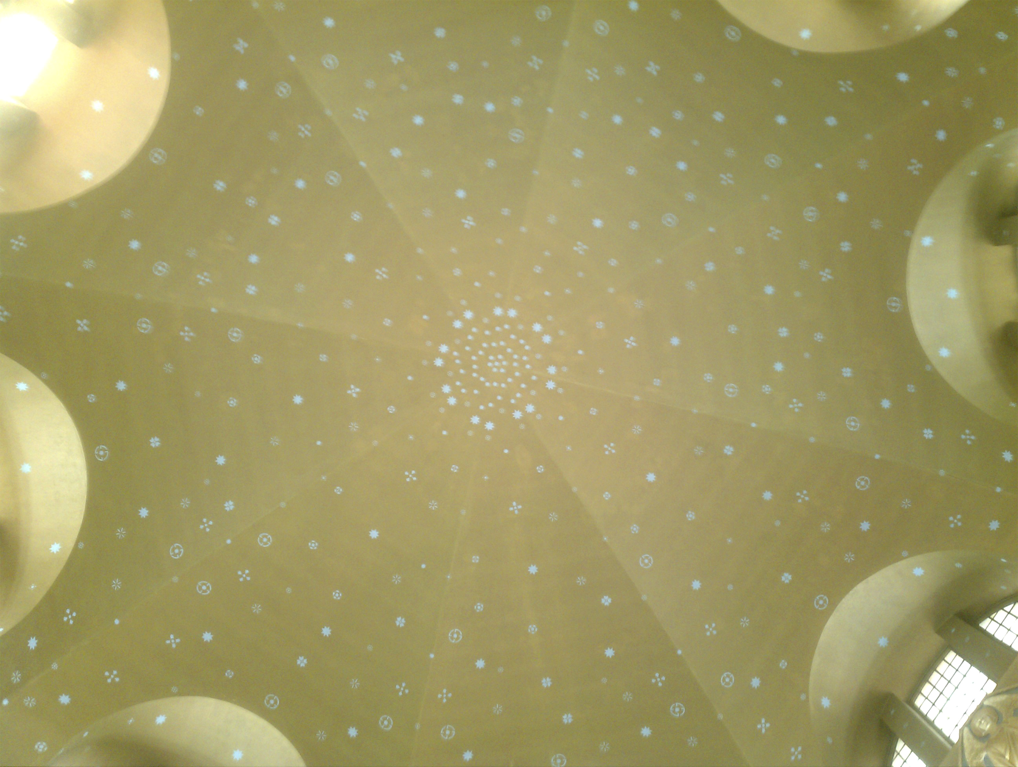 This is the painted ceiling, showing stars, inside the dome of the Byzantine-style St. Anne's Anglican church in Toronto, Ontario, Canada.